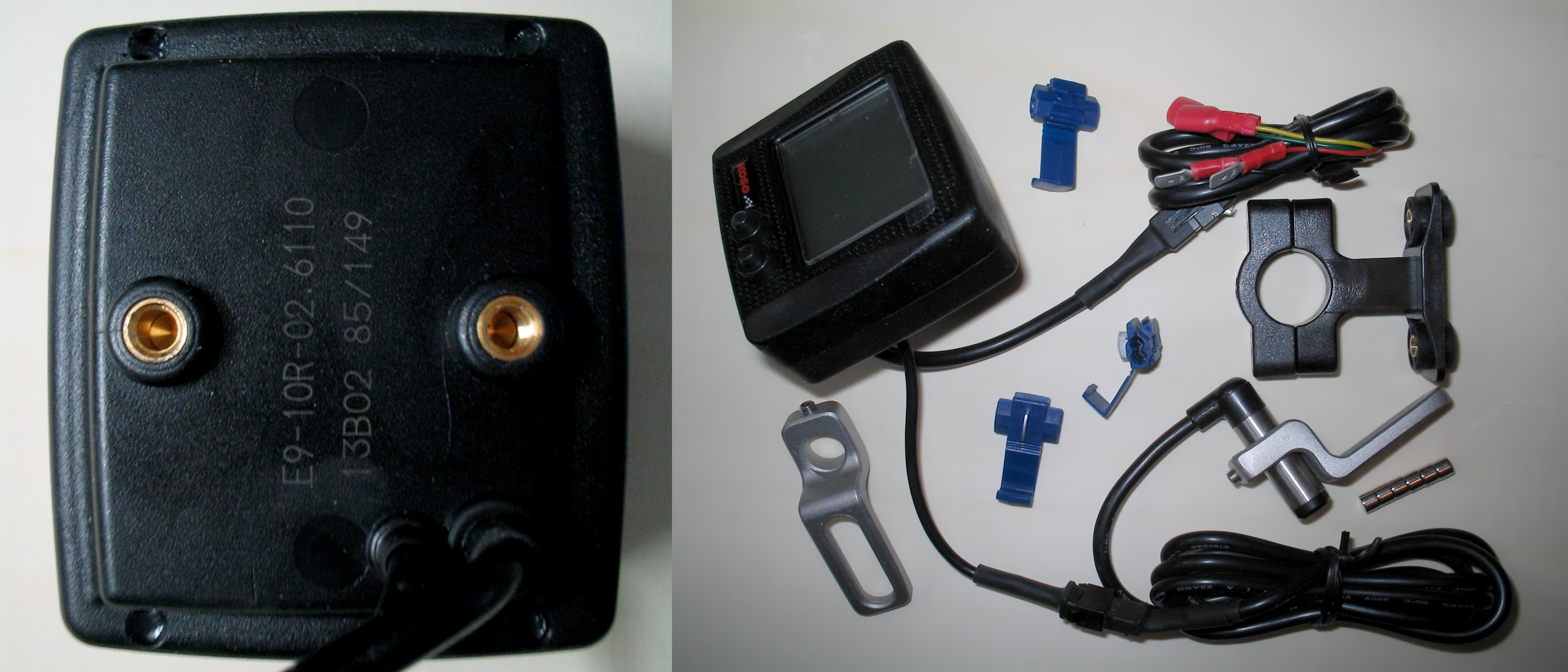 Digital speedometer approved with magnetic sensing the wheel of Koso, XR-S, you can see the speedometer, its support, the power cord and petrol, which have been applied to the female spade connectors and spade connectors Fuel sensor males for the power supply, you can see the sensor connector and the two magnetic media, 6 magnets to be applied to the wheel and the three cable clamp.